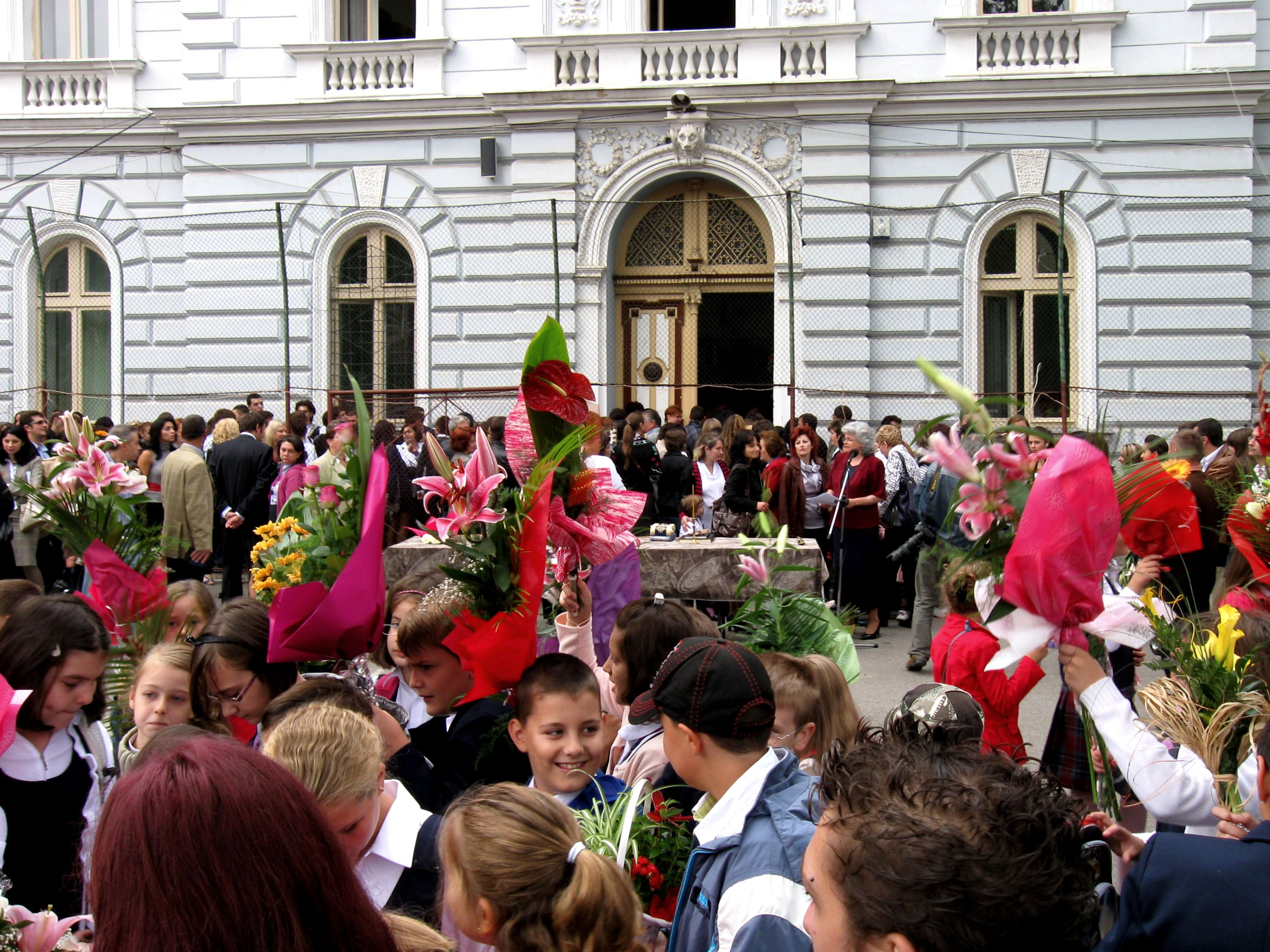 National College of Banat, 2010.